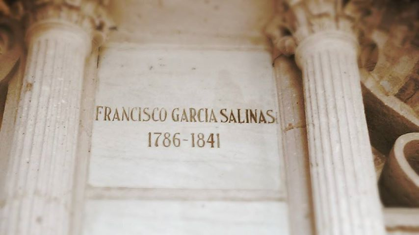 Francisco García Salinas